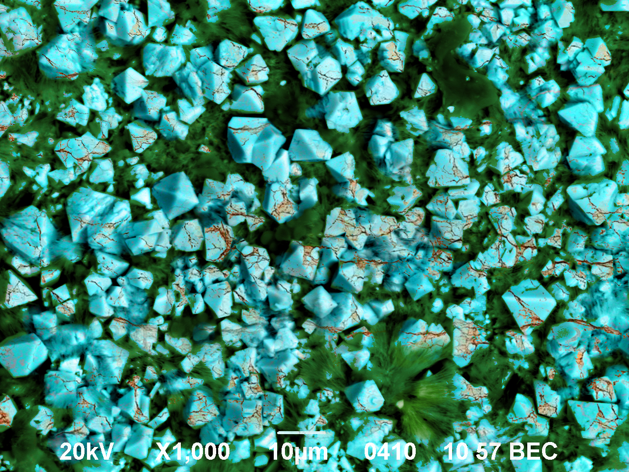 The image of the morphology of galium arsenide nanocrystalline surface. Microphotograph is made with scanning electronic microscope JEOL JSM-6490 and coloured with the computer graphic tools. Magnification x1000.